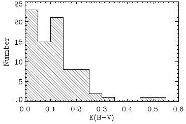 Histogram showing Pea reddening using Balmer decrement.